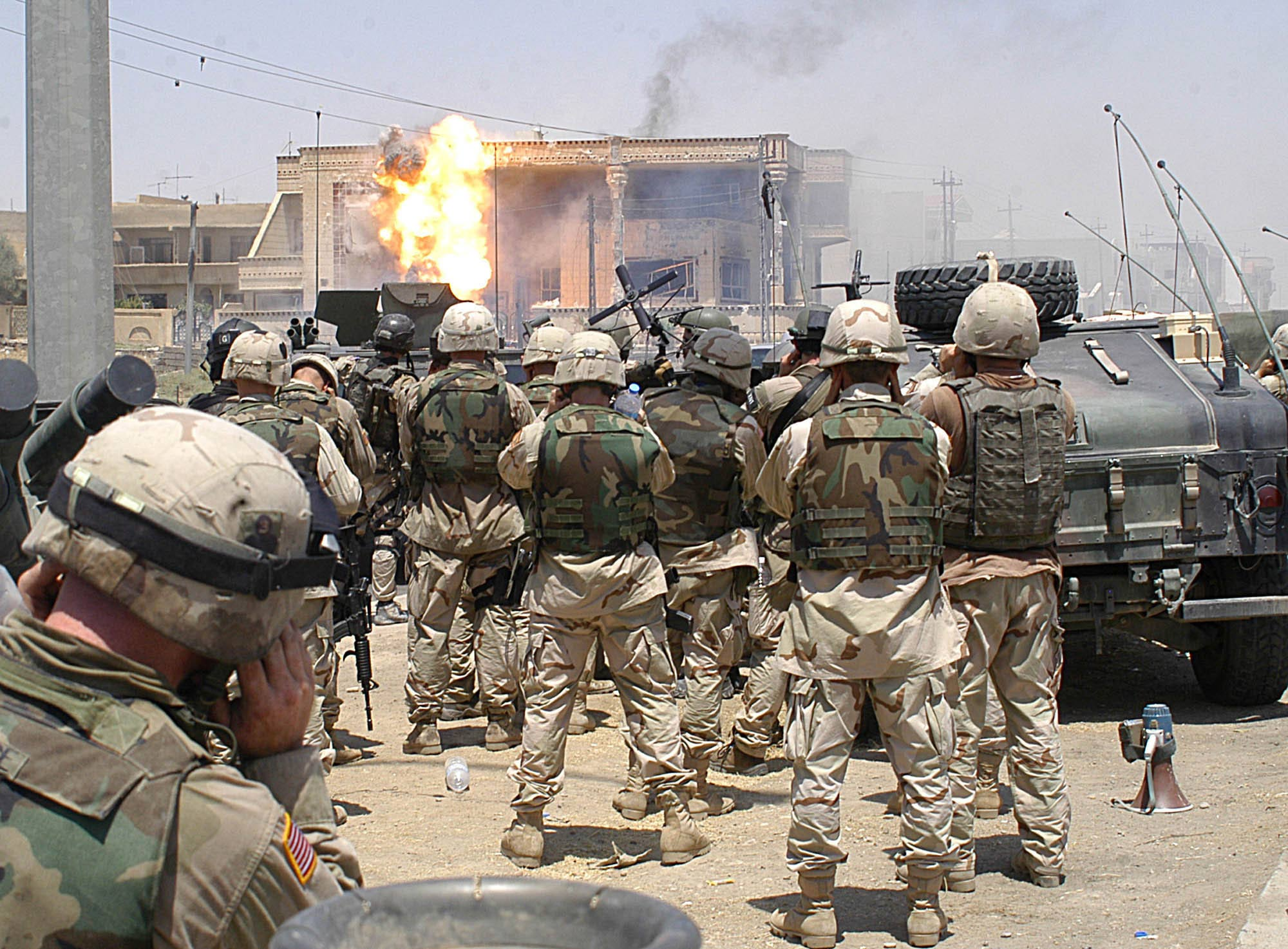 An image made by a U.S. Army soldier during the raid to capture or kill Uday and Qusay Hussein. Original caption: Flame erupts from a building hit with a TOW missile launched by soldiers of the Army's 101st Airborne Division (Air Assault) on July 22 in Mosul, Iraq. Saddam Hussein's sons Qusay and Uday were killed in the battle as they resisted efforts by coalition forces to apprehend and detain them. Photo by Spc. Robert Woodward, U.S. Army.